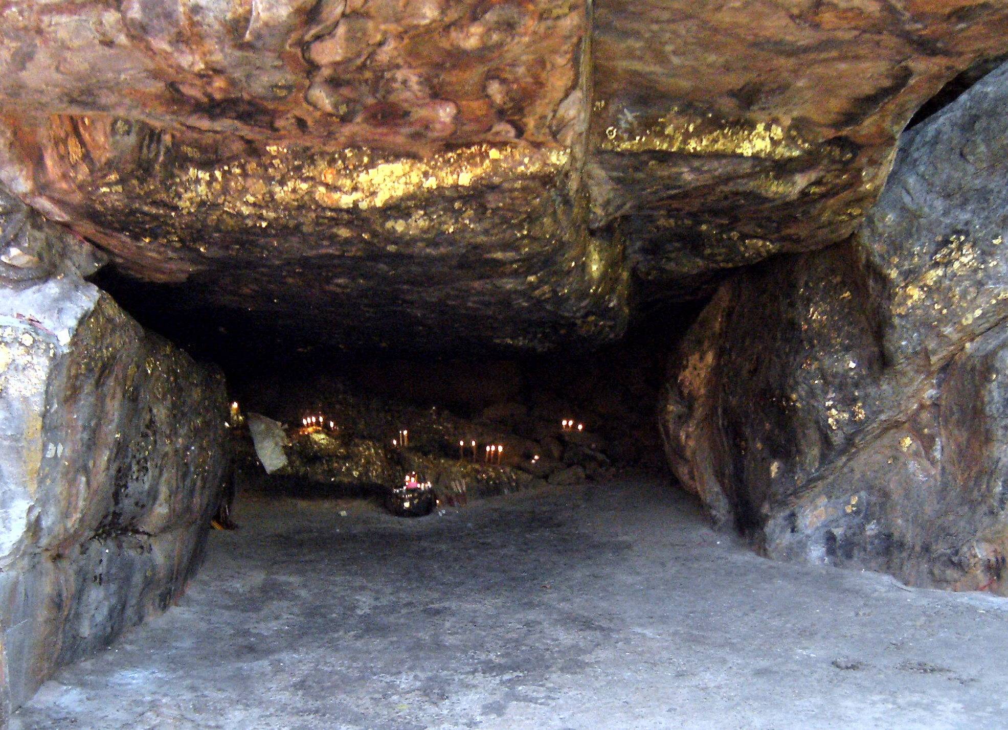 Sukarakata cave , Rajir, Bihar, India.